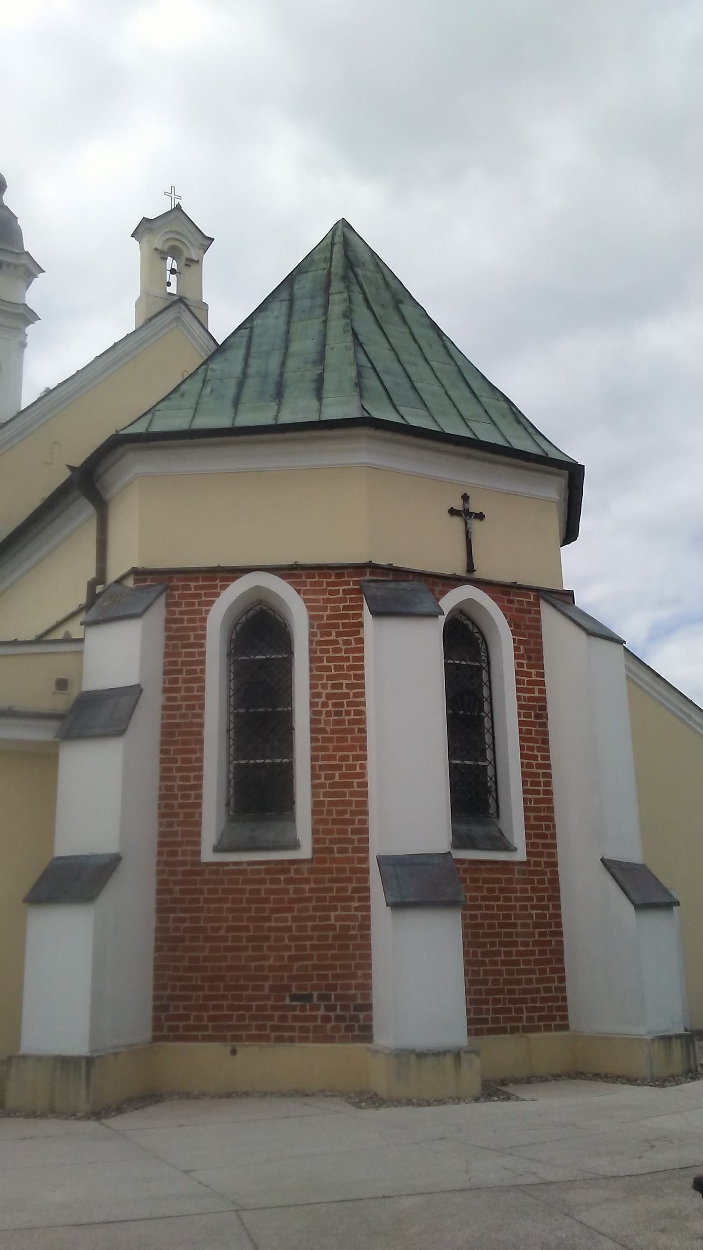 Church in Brdów